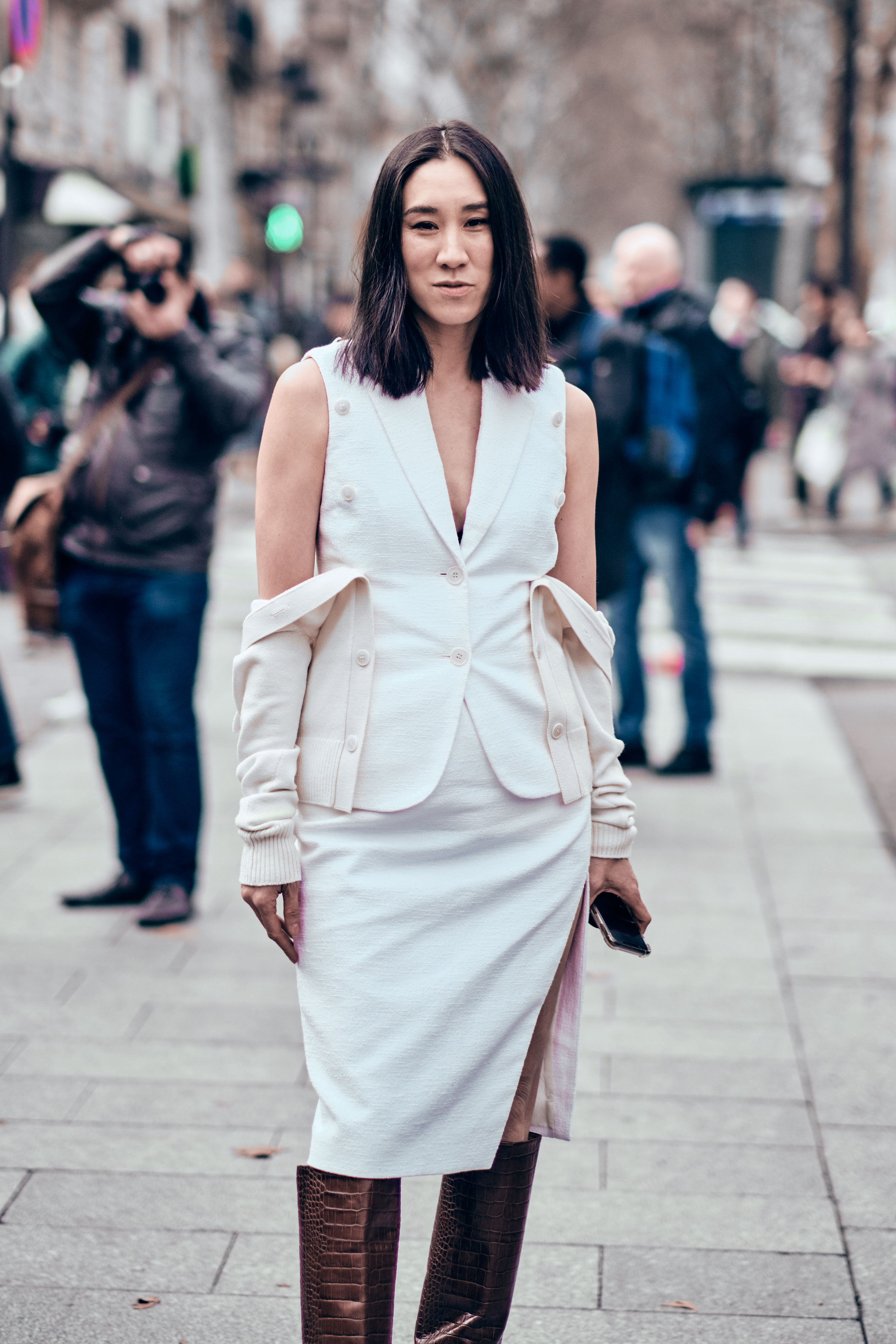 Eva Chen at Paris Fashion Week Autumn/Winter 2019